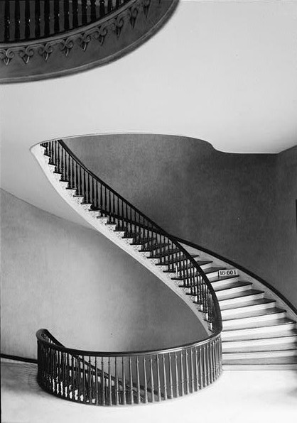 One of the double spiral staircases in the Alabama State Capitol, constructed by Horace King in 1851. From the Historic American Buildings Survey, W. N. Manning, Photographer, April 16, 1934. WINDING STAIRCASE (SECOND FLOOR) HABS ALA,51-MONG,1-8 Image courtesy of federal HABS—Historic American Buildings Survey of Alabama project.